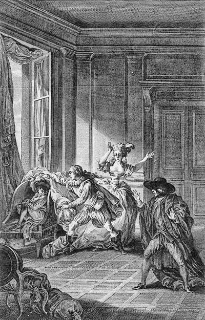 Illustration from La Folle journée ou Le Mariage de Figaro, showing the Count discovering Chérubin in Suzanne's bedroom